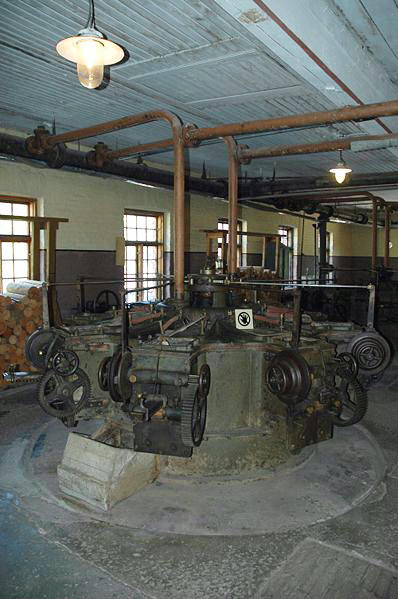 Grinder (a groundwood production machine) at the historical Verla groundwood and board mill (Finland)